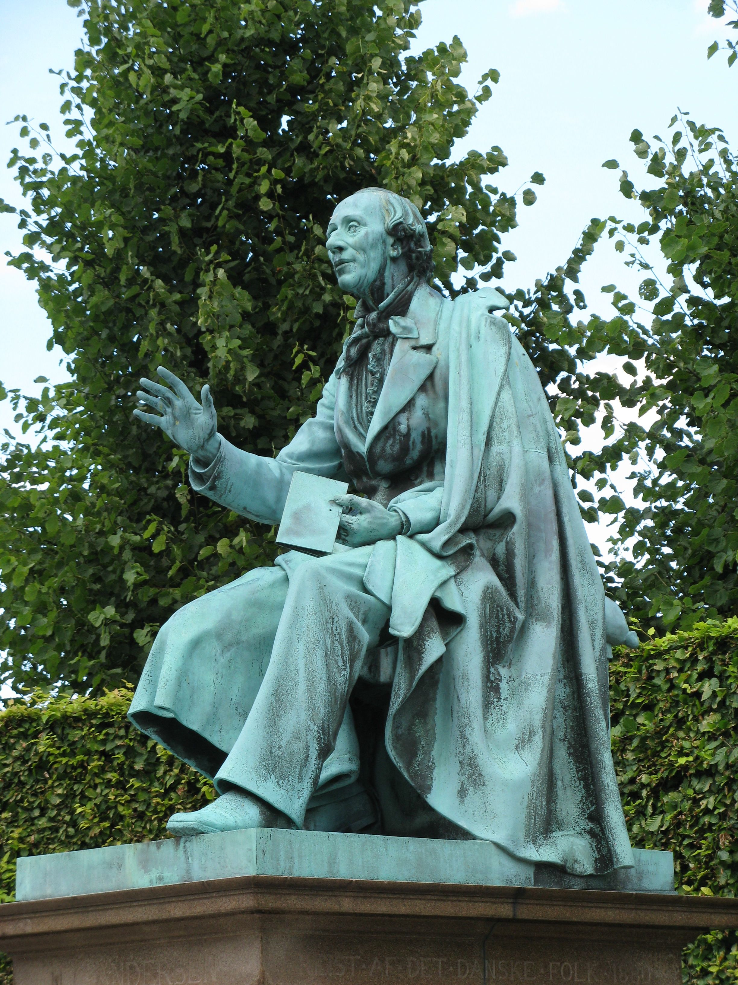 Hans Christian Andersen by August Saabye at Rosenborg Garden in Copenhagen.